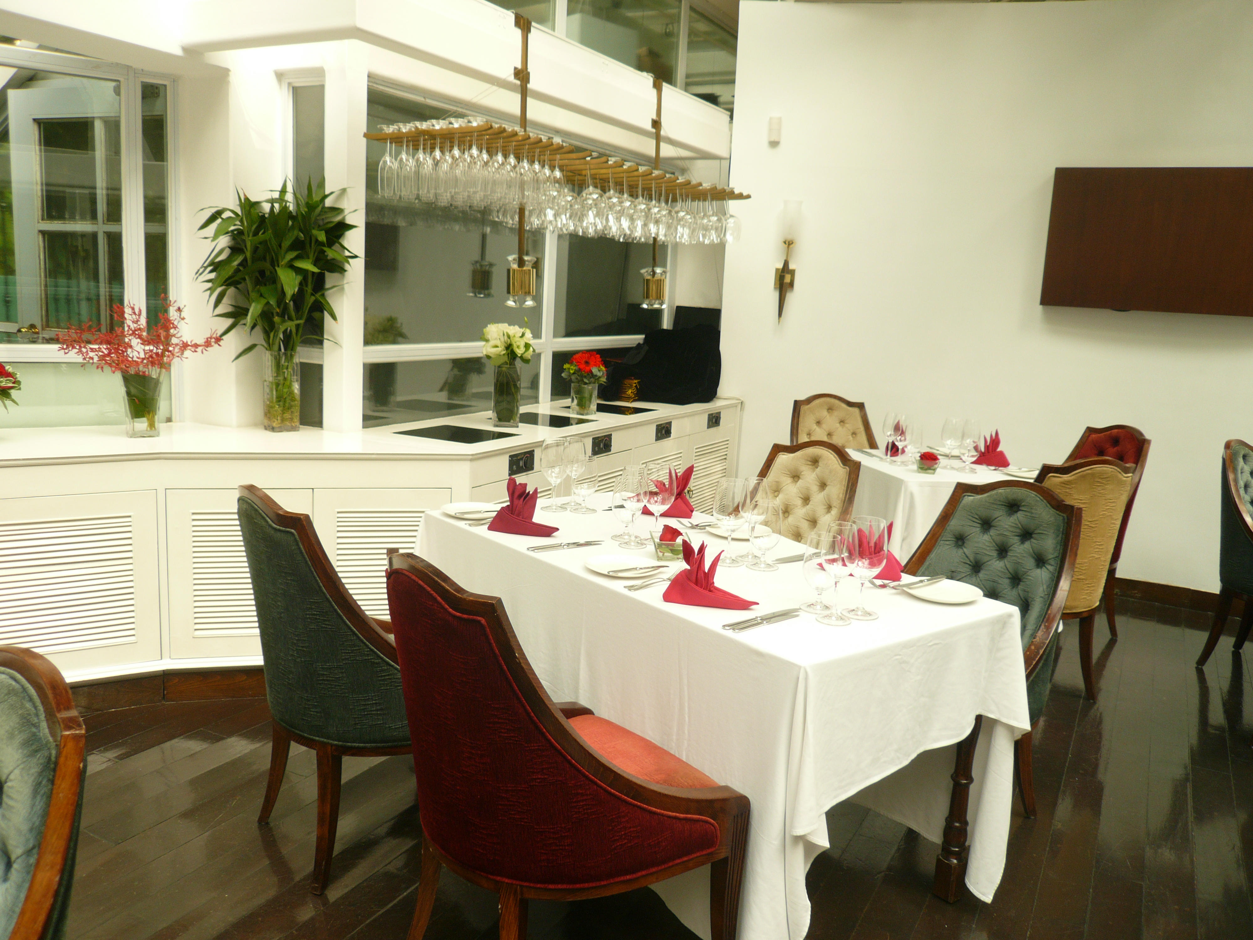 Crown Wine Cellars Clubhouse